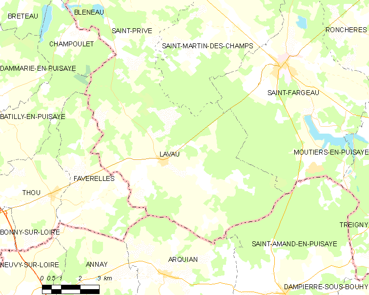 Map of French municipality Lavau